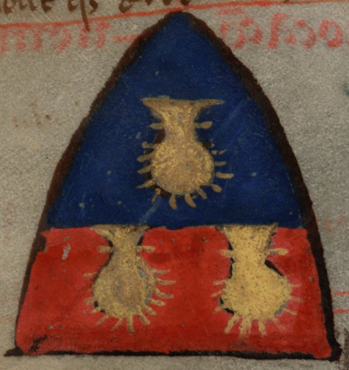 Coat of arms of William de Briouze as it appears on folio 33v of Cambridge Corpus Christi College 16 II. The upside down shield represents William's death.